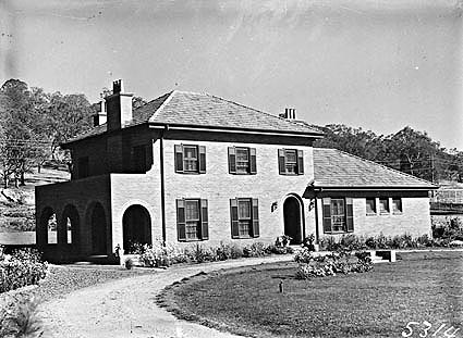 The house of Sir Robert Garran at 22 Mugga Way, Red Hill, Canberra, Australia.